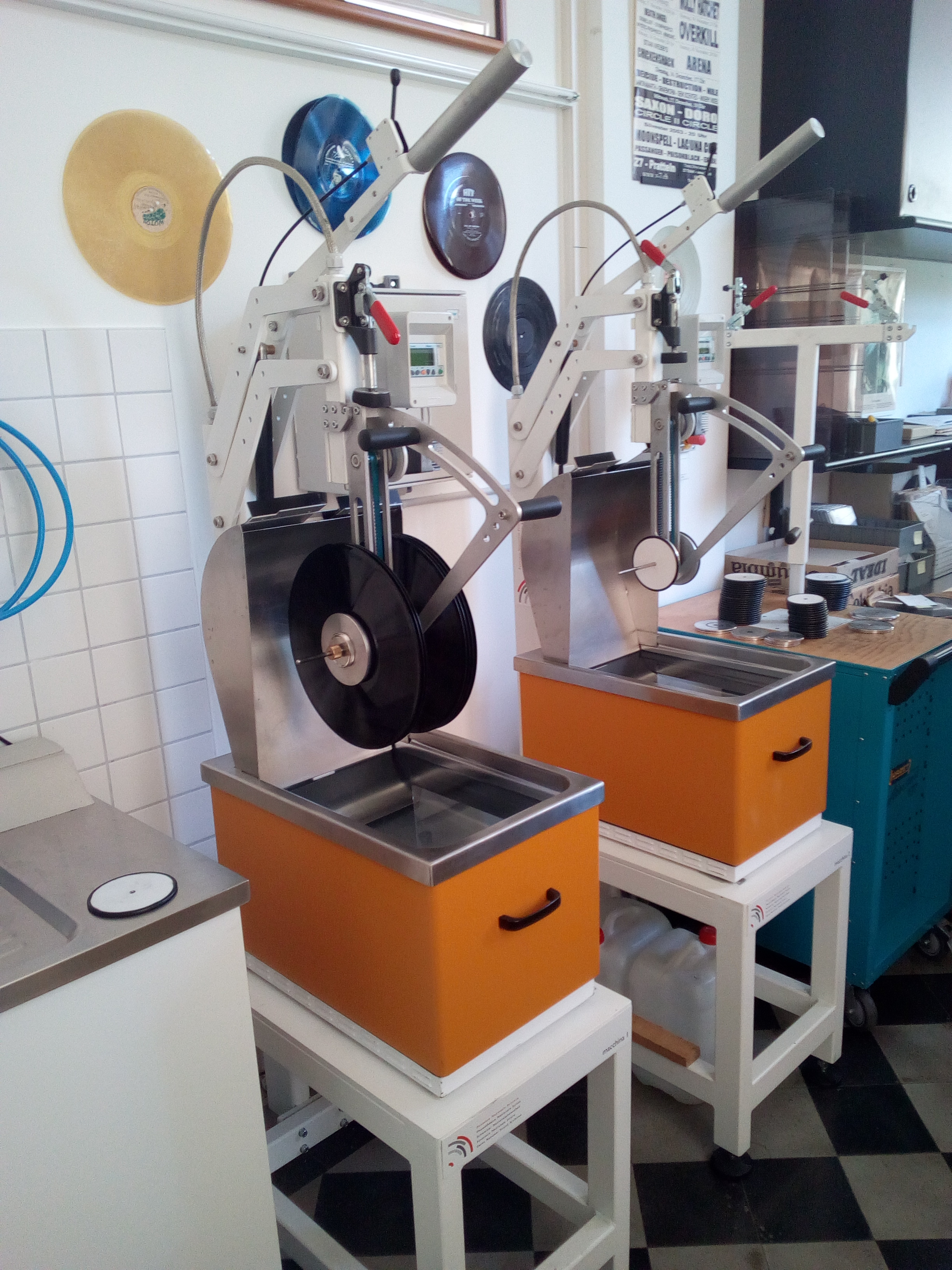 Ultrasound devices for washing and rincing vinyl discs. Swiss national sound archive, Lugano